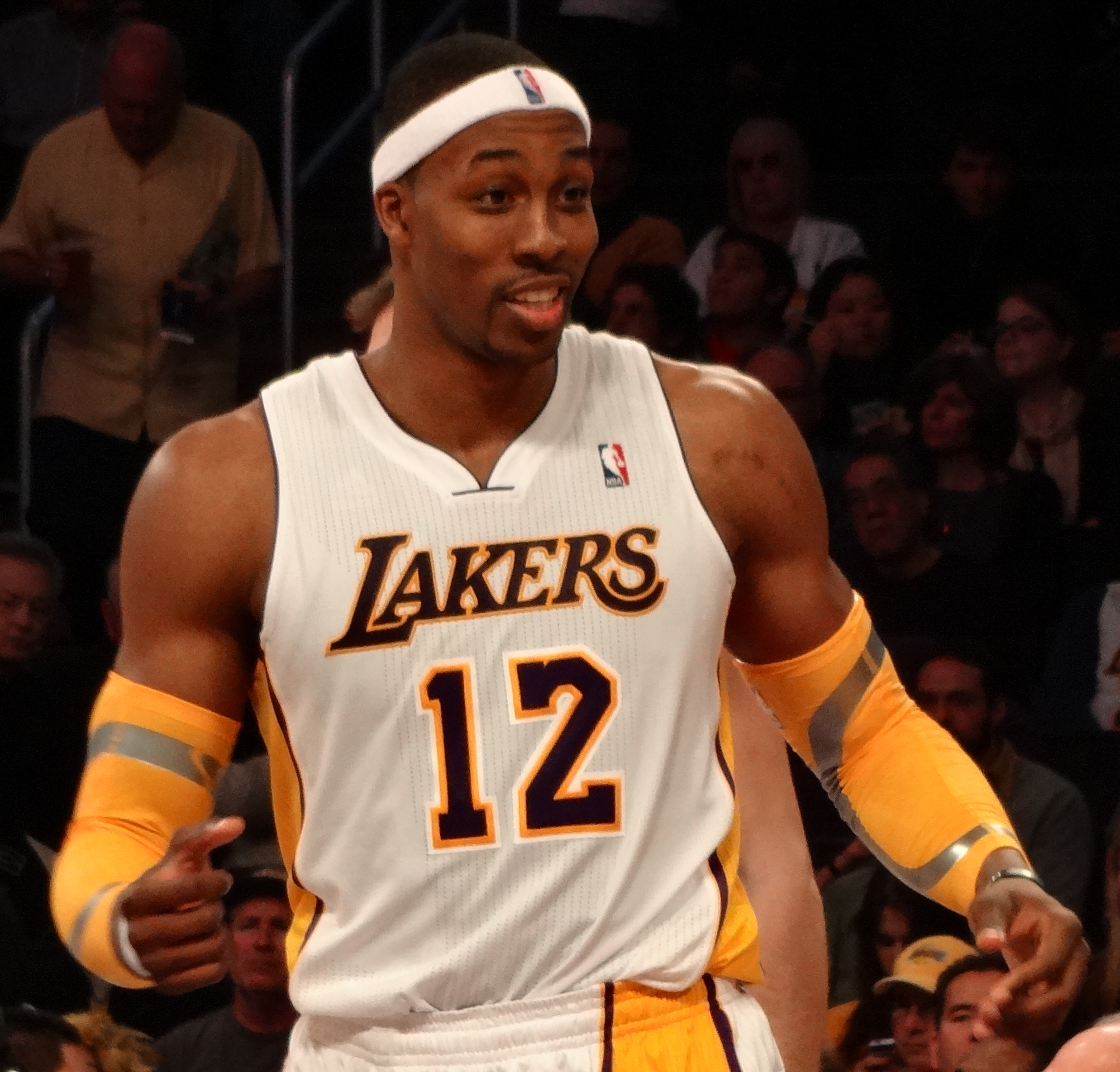 Dwight Howard. Los Angeles Lakers vs Denver Nuggets at the Staples Center